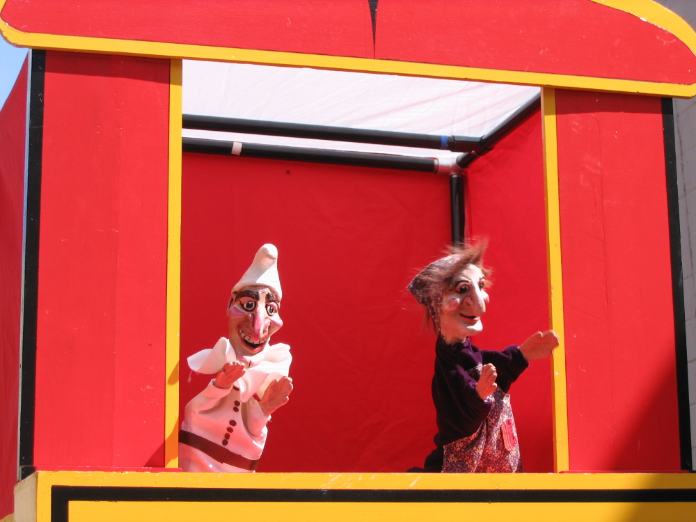 Punch and Judy puppet show in Philadelphia